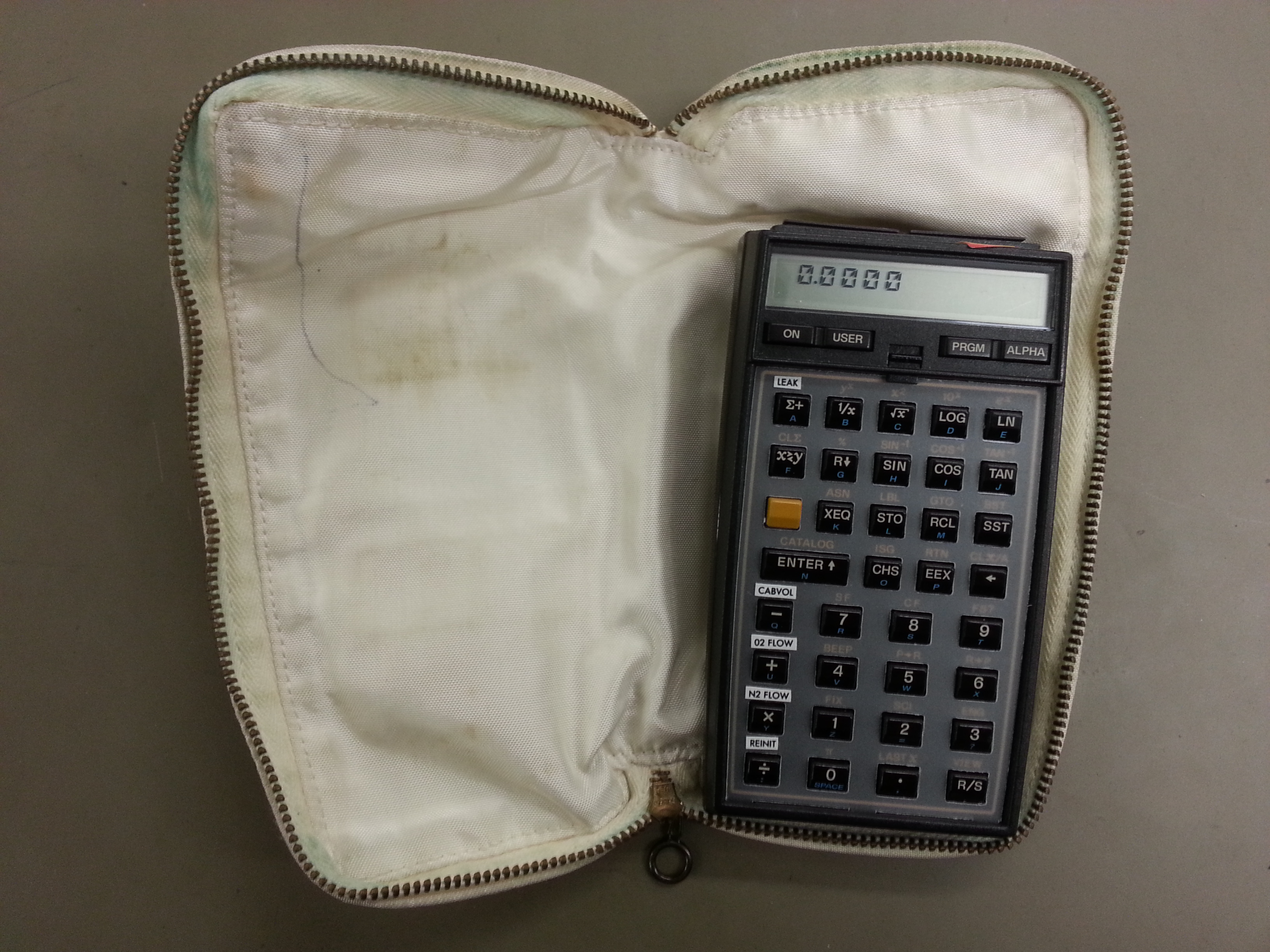 HP-41CV programmable calculator used in the NASA Shuttle Mission Simulator, manufactured in 1983. It has velcro to hold it in the carrying case. From the Ladd Observatory history of science collection.